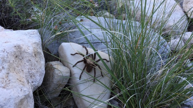 A tarantula at the base of the Guadalupe Mountain National Park